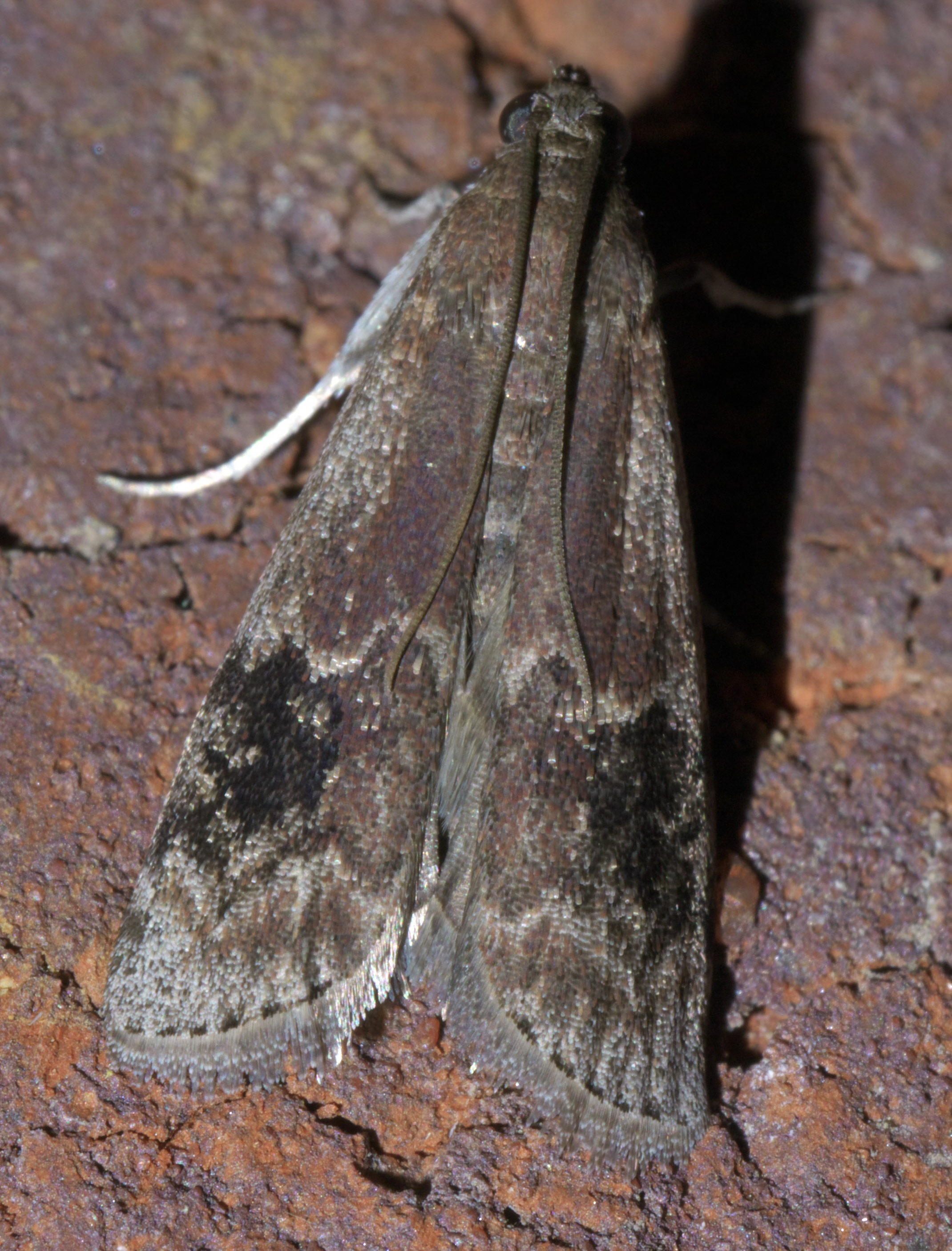 Euzophera semifuneralis, American plum borer, ID Confidence: 90